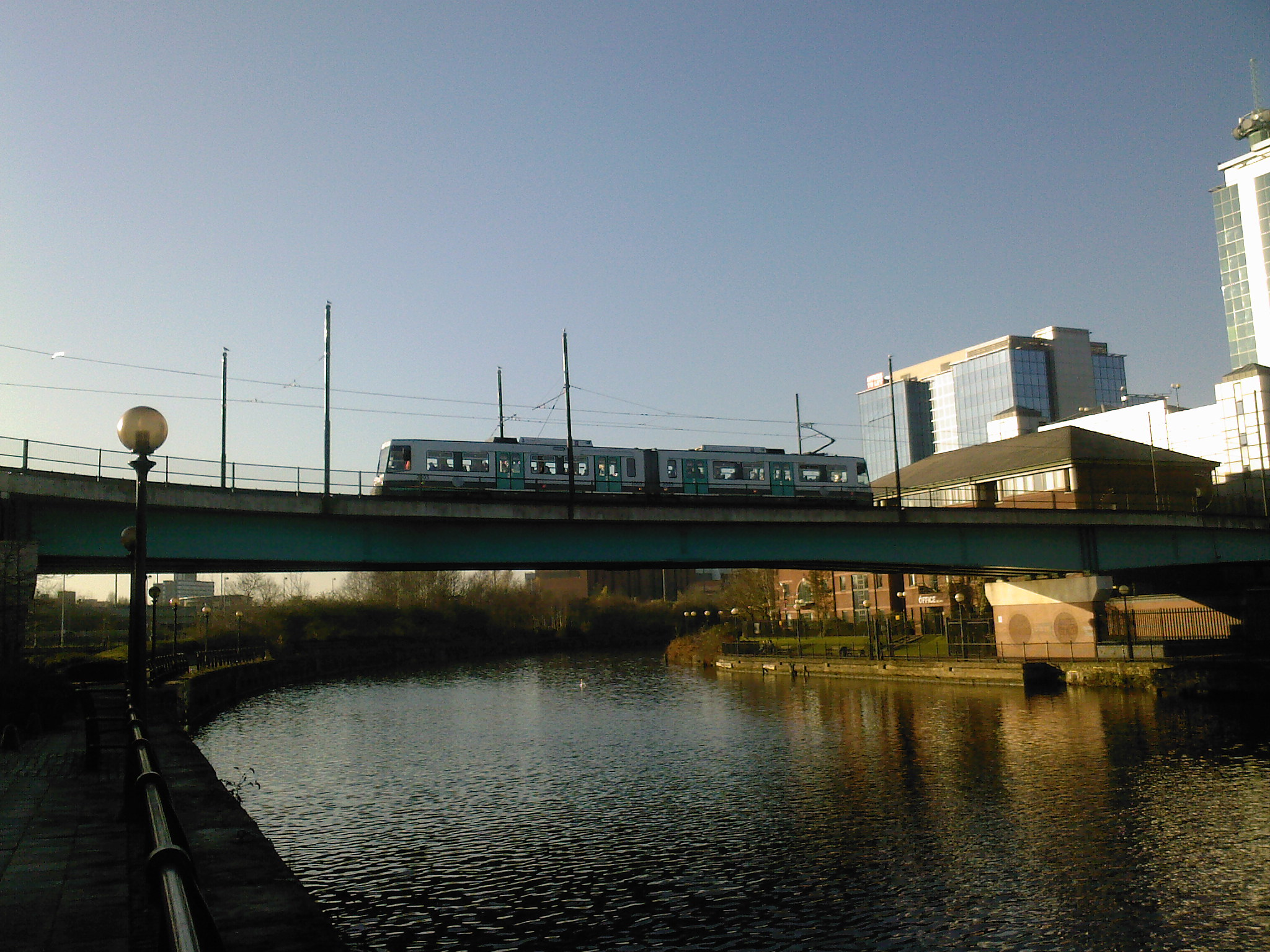 Metrolink Tram (2005) crossing the Manchester Ship Canal at Pomona and bearing left into Pomona Tram Stop